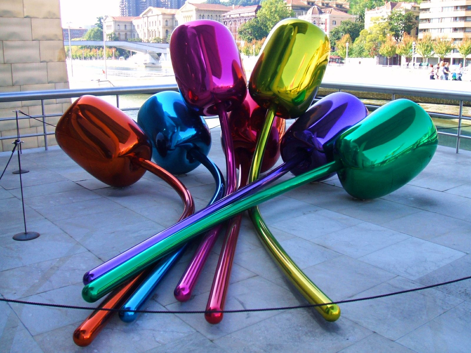 Museo Guggenheim Bilbao